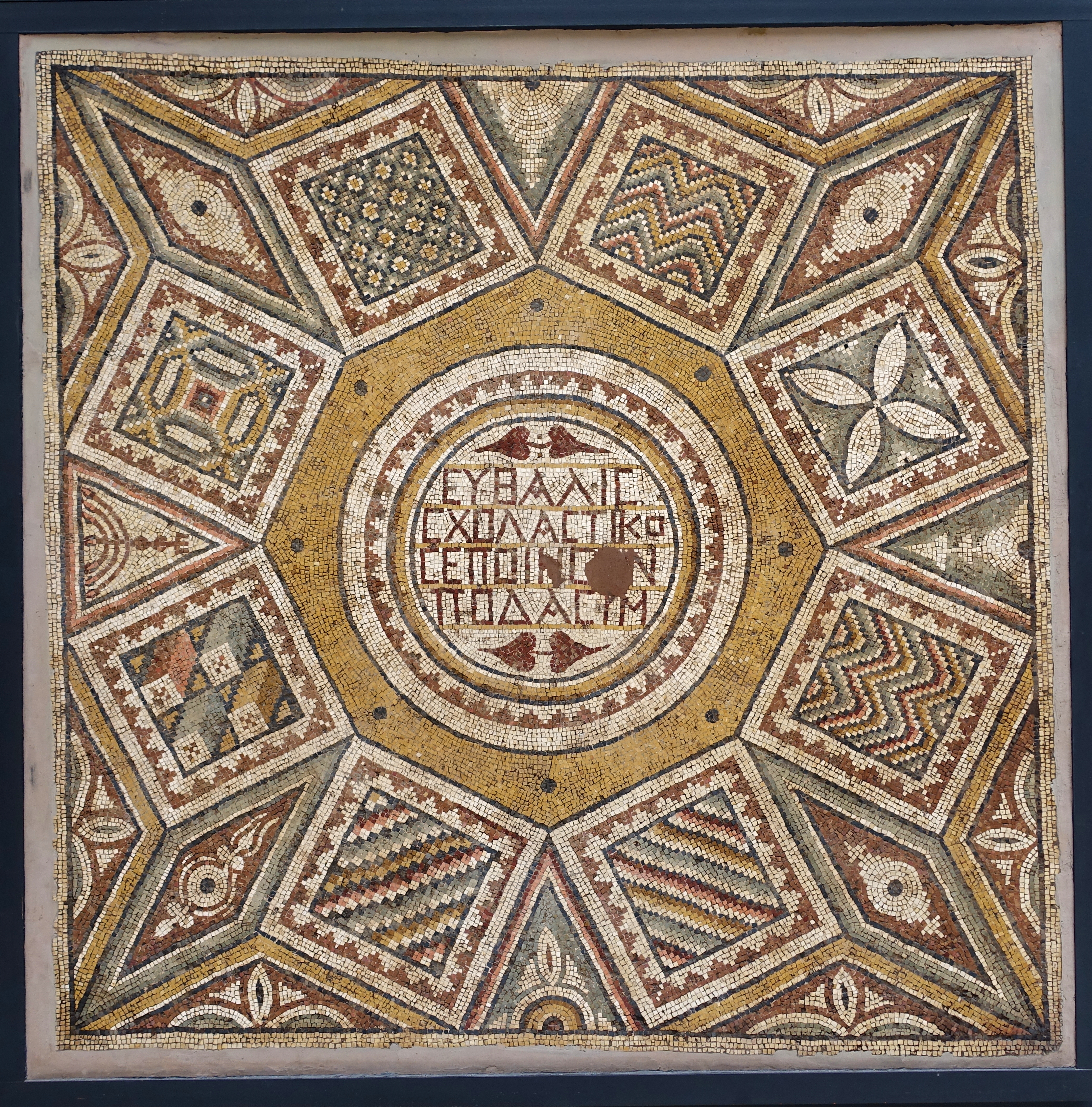 Exhibit in the Cinquantenaire Museum - Brussels, Belgium.